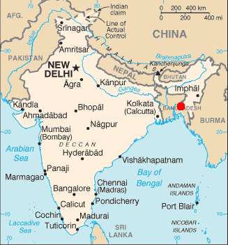 Map of India. Position of Agartala highlighted.